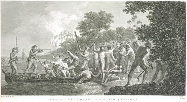 The Landing of James Cook at Erramanga, One of the New Hebrides